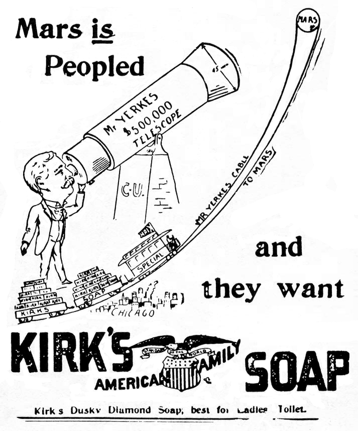 1893 ad from a Chicago newspaper for "Kirk's Soap". The ad plays on the opening that year of the Yerkes Observatory's 1-meter (40-inch) refracting telescope (the largest of its type in the world), and the idea that Mars was populated with intelligent life.